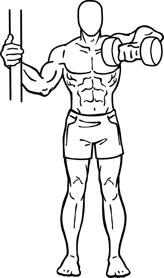 an exercise of shoulder